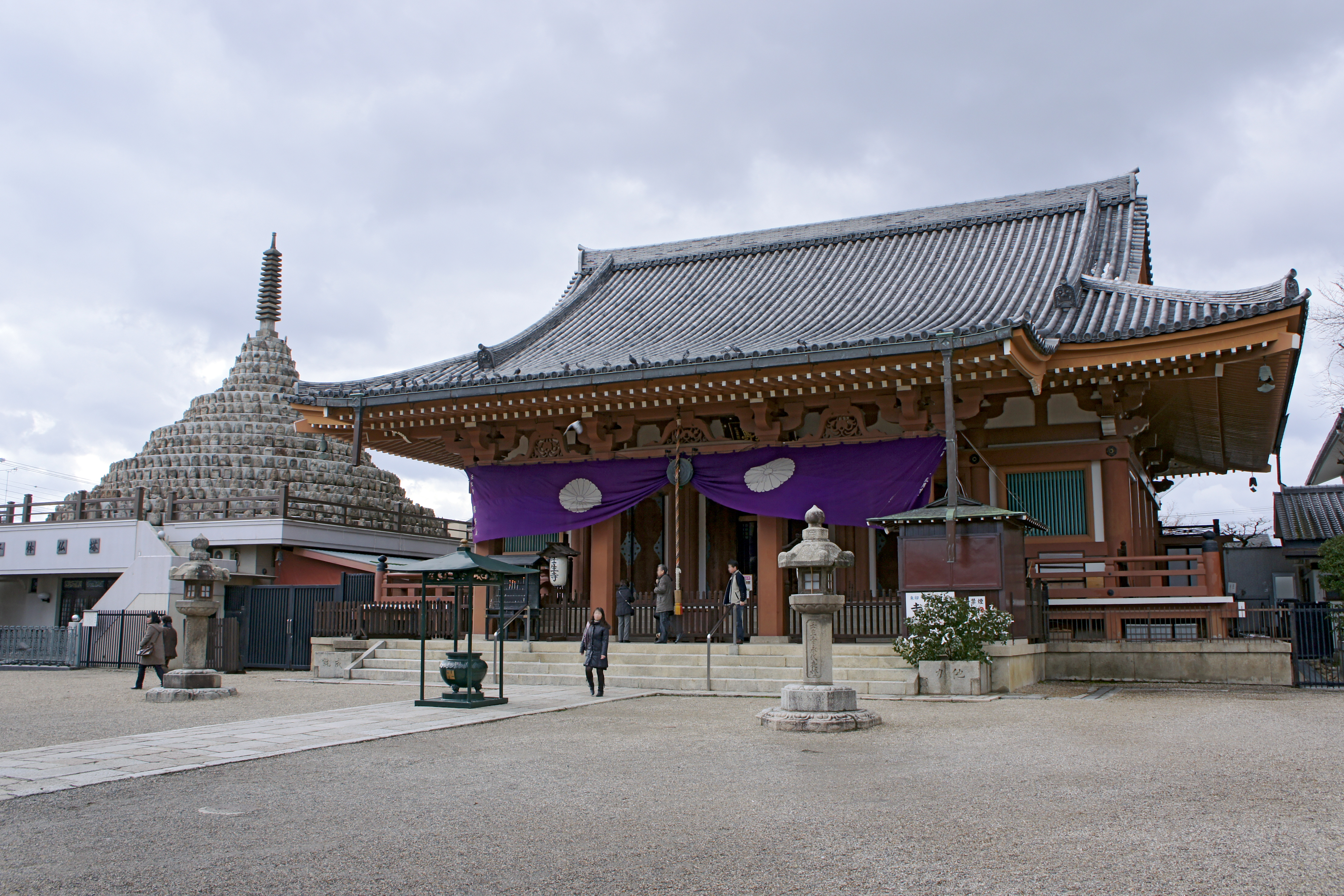 Mibu-dera in Kyoto, Kyoto prefecture, Japan.